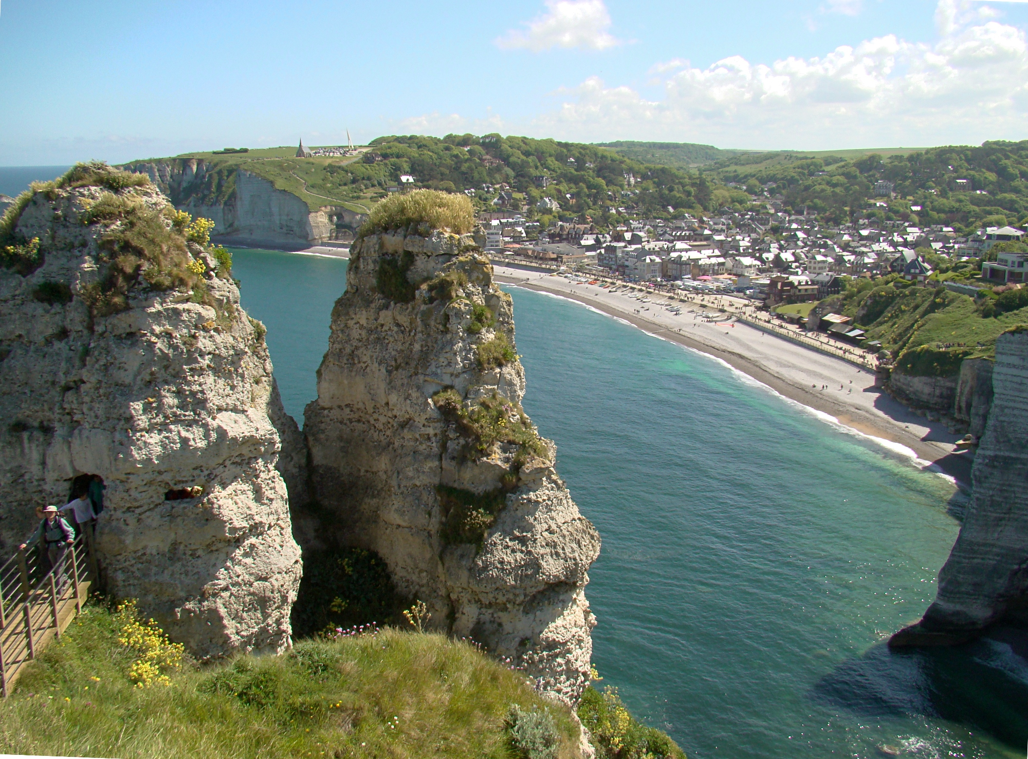 Étretat, view from the Falaises d'Aval onto the village